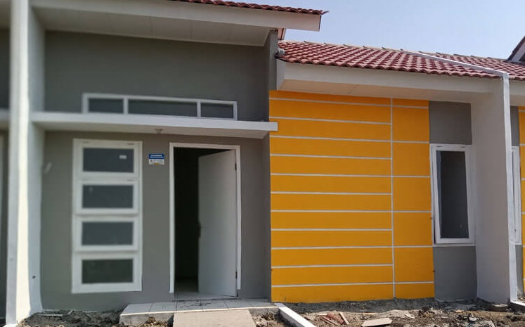 Project 2.400 Unit Rumah